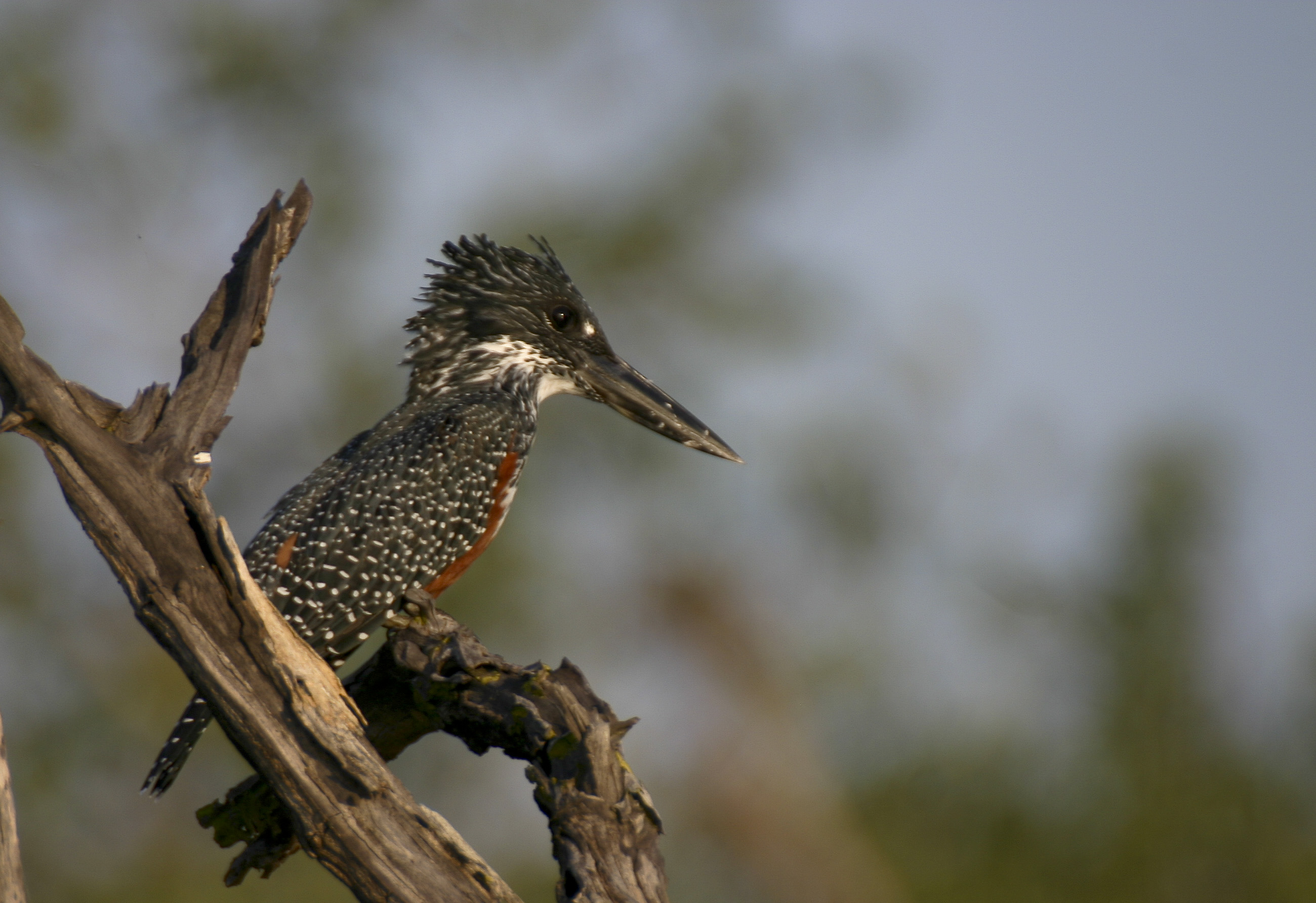 Giant Kingfisher perching on a branch in Zimbabwe.